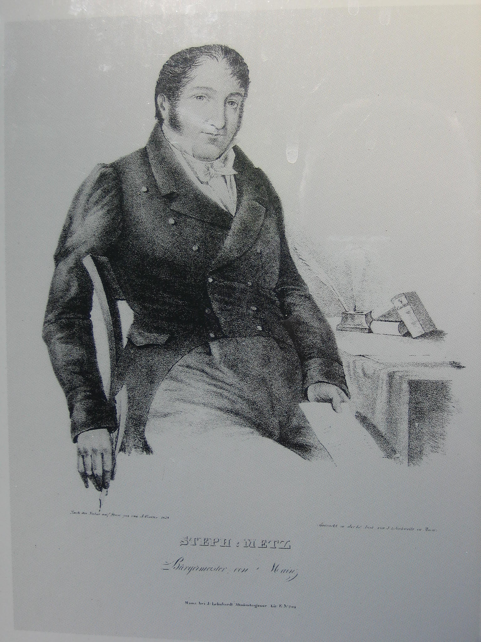 Stephan Metz ,mayor of Mainz.